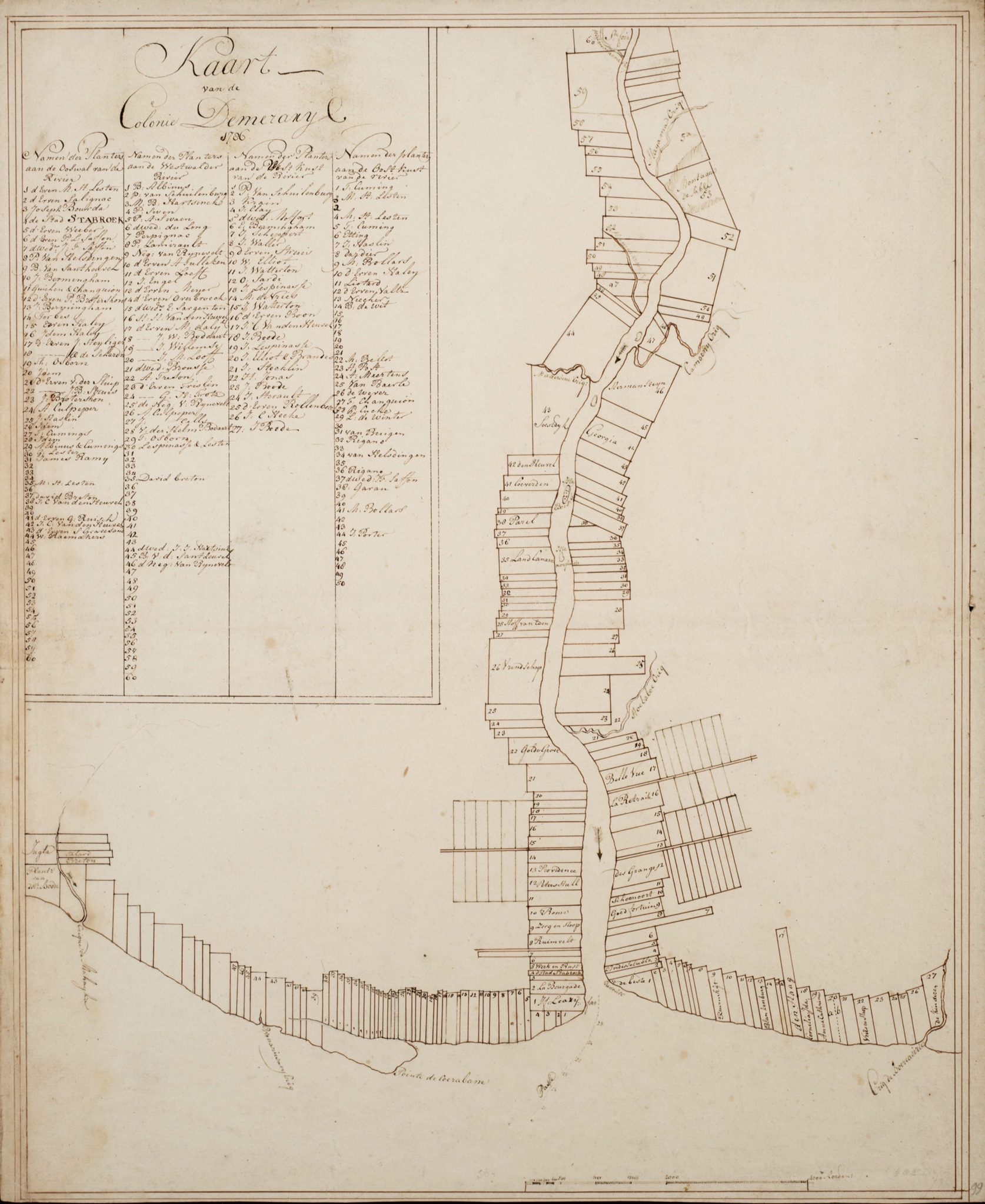 Kaart van de Colonie Demerary 1786 Title Map of the Colonie Demerary Description The Demerary colony extended on both banks of the river and along the coast on both sides of the estuary. The plots point elongated inland. All are numbered, some have a name like 'Vrindschap', 'Belle Vue' and 'Goed Fortuin'. Four tables indicate the names of the owners, which correspond with the numbers of the plots. In defense, the mouth of the Demerary is flanked by a fortress and a redoubt. Type of original Card Keywords Plantations Maps (geography) Signature UBM: Card index: 102.18.03 Period subject 1786 Period manufacture 1786 Location subject Guyana Demerara Dimensions 59 x 47.5 cm Scale approx. 1: 110,000